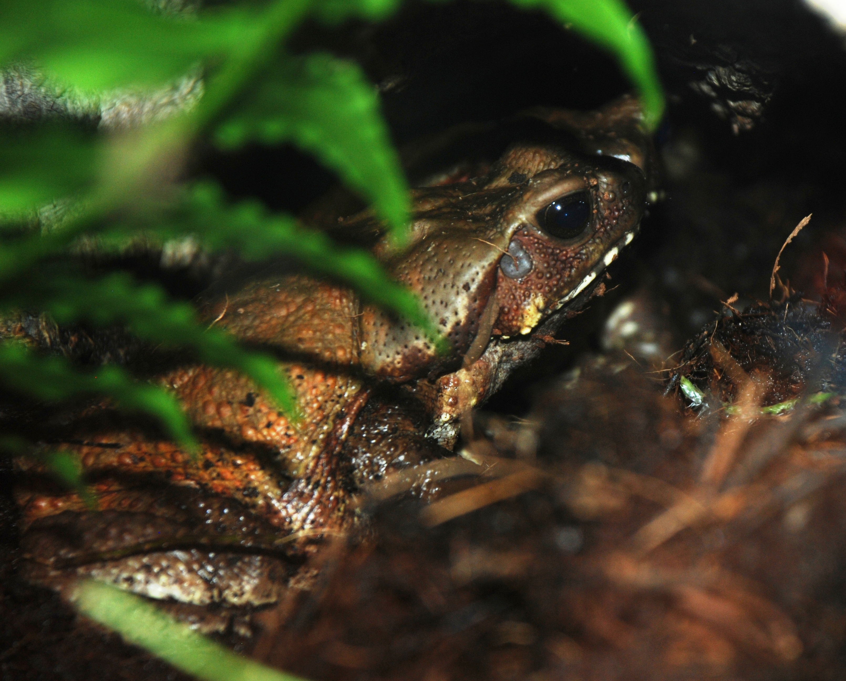 Reptiles in Smithsonian National Zoological Park: Bufo guttatus Smooth-sidet toad